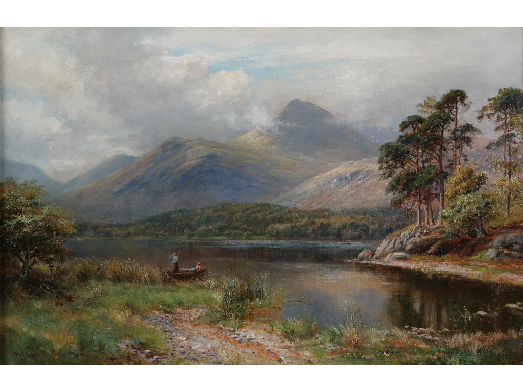 Derwentwater by William Lakin Turner